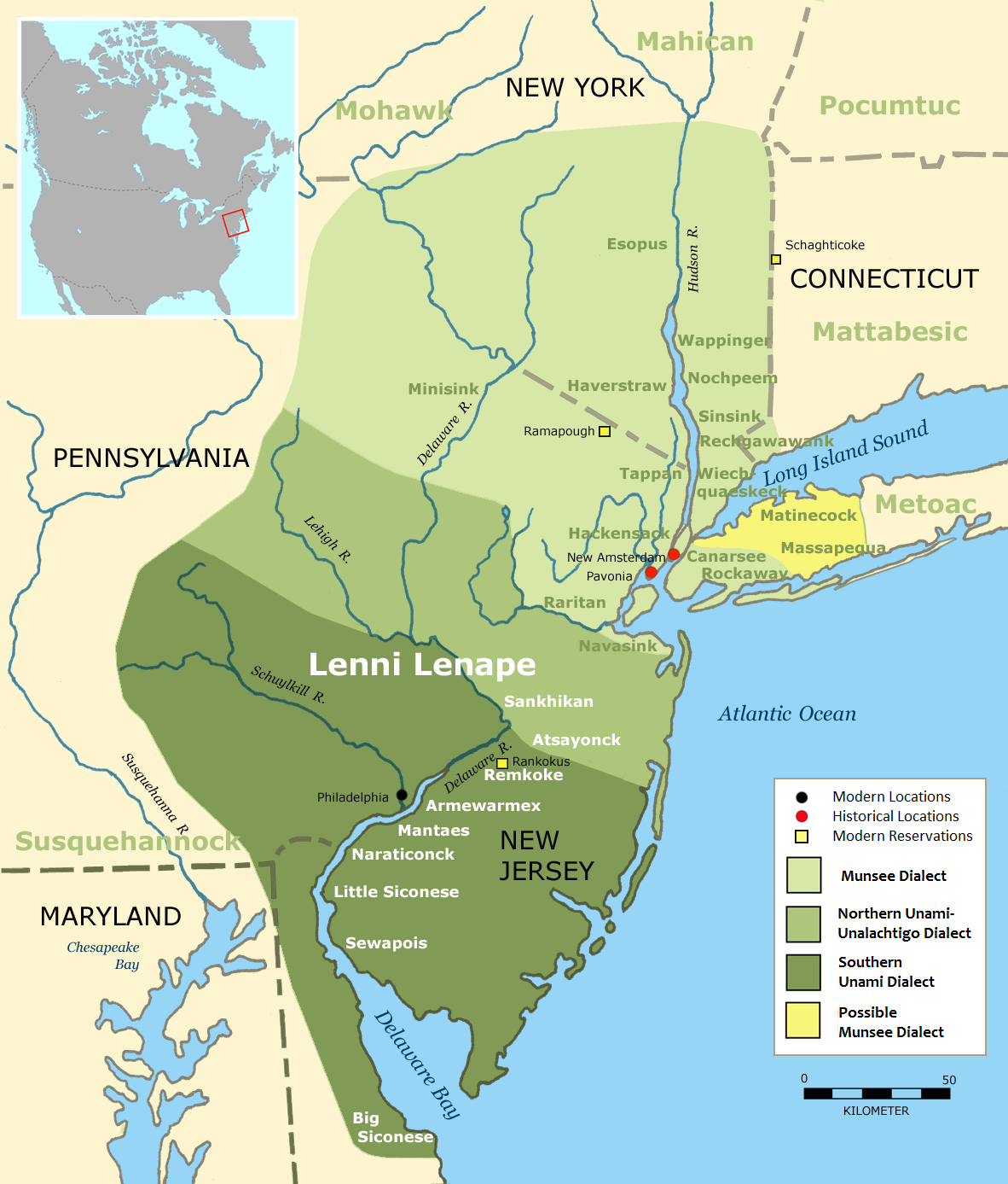 Map of Lenape languages and tribes. Map terms translated from German original into English.